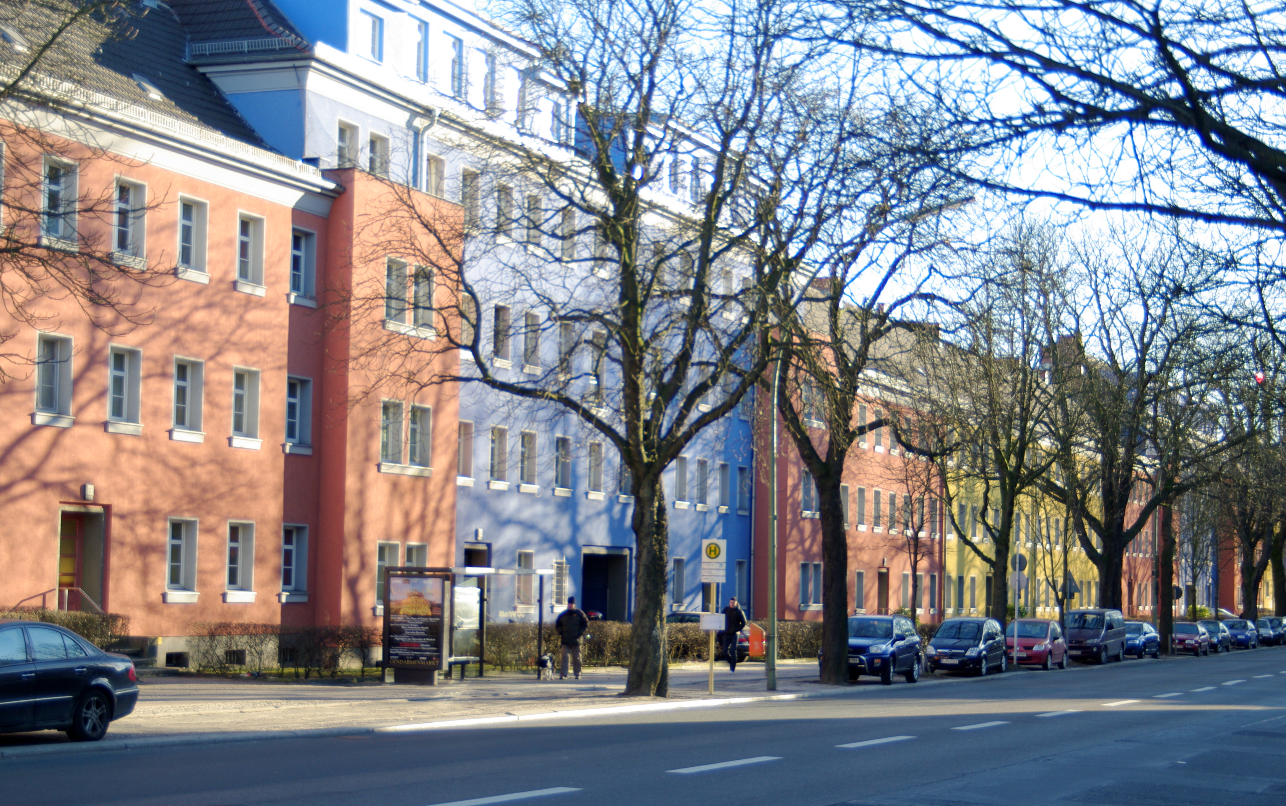 Houses in the Attilastraße, Berlin-Tempelhof.